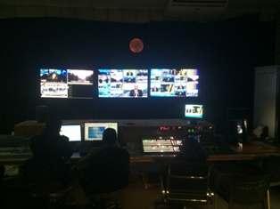 studio_alhadath